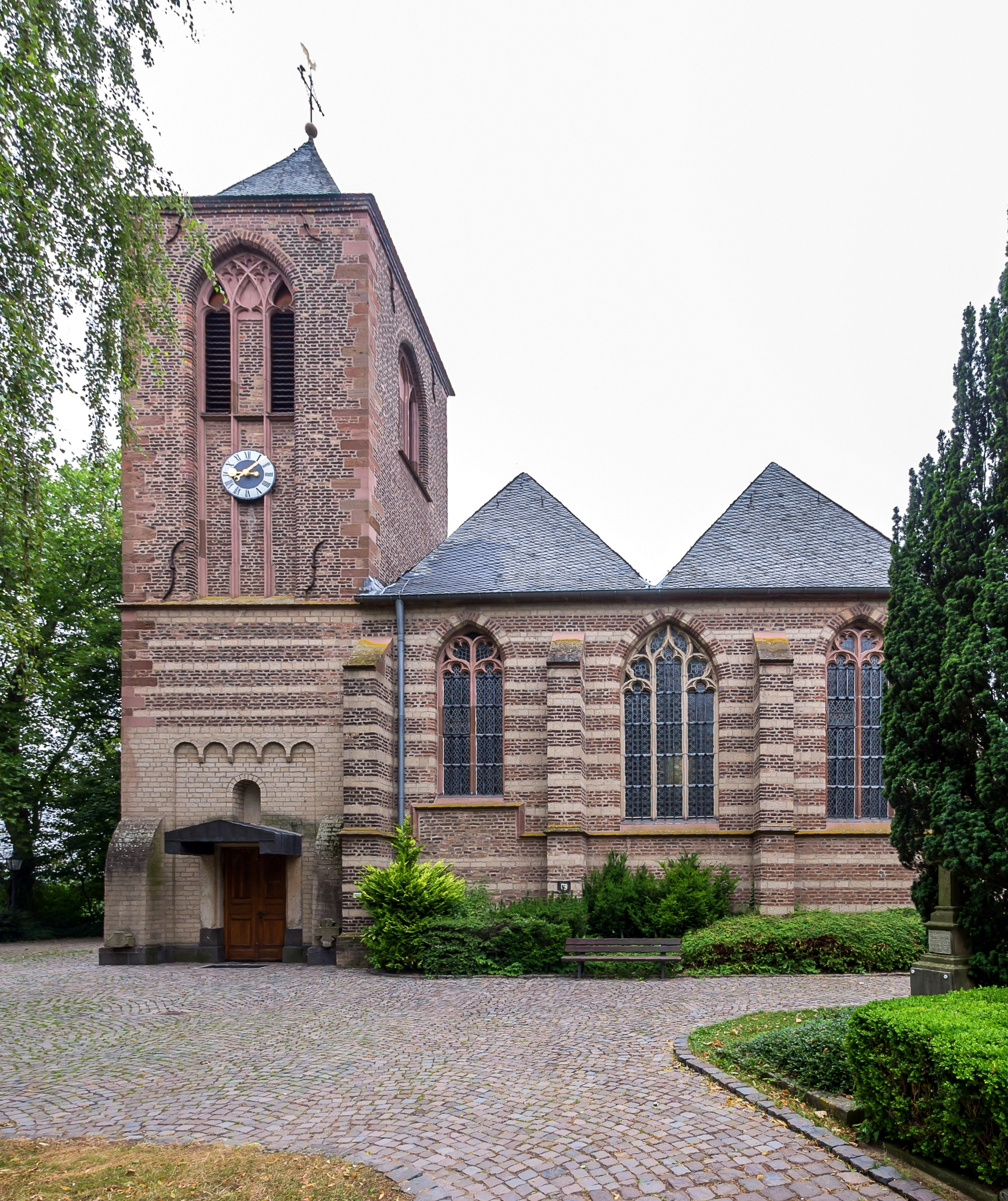 Lipp-St.-Ursula-Weg Katholische Pfarrkirche, Sankt-Ursula IThis is a photograph of an architectural monument., no. 11